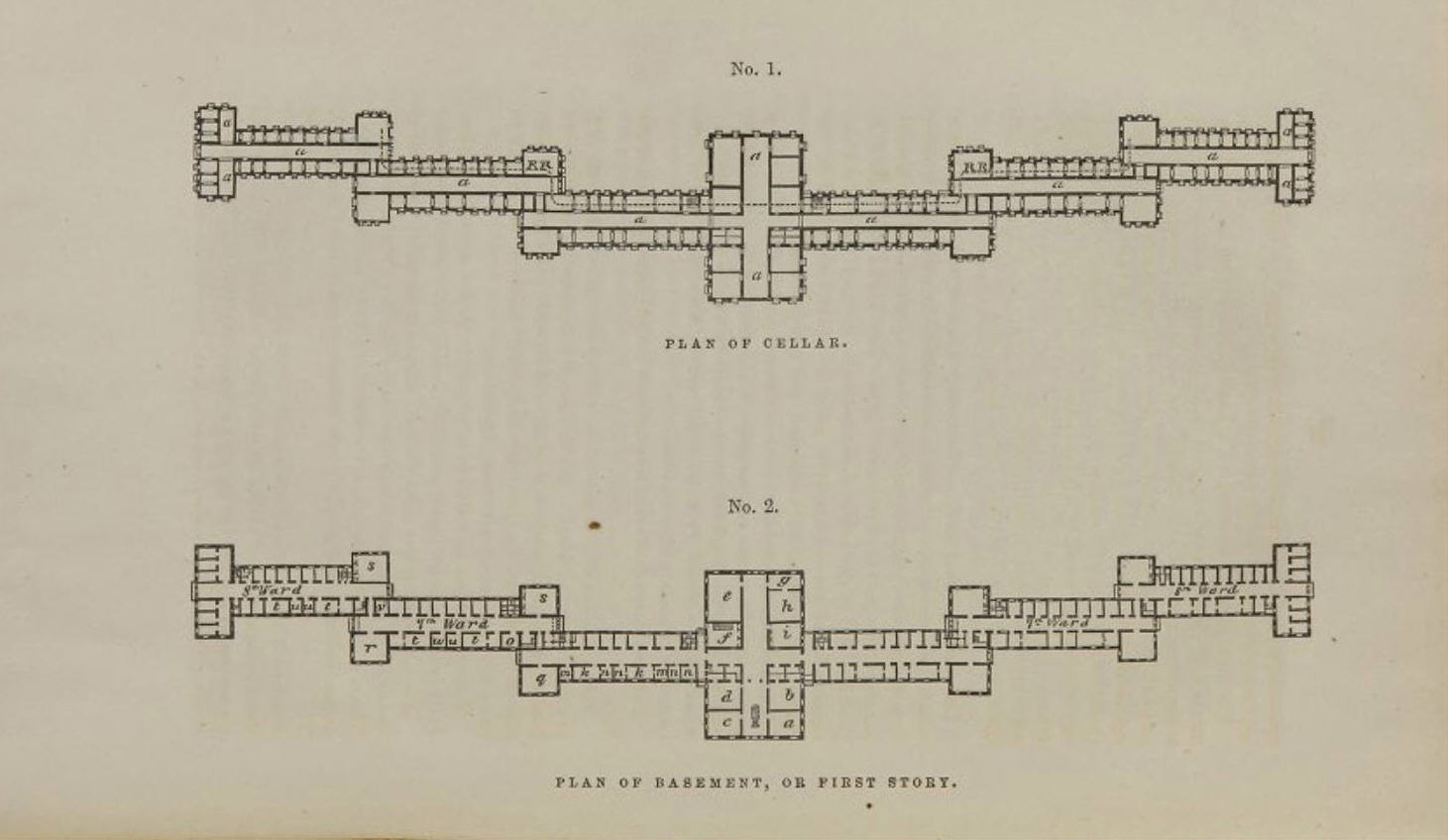 Plate No. 1 and No. 2 from Thomas Story Kirkbride's On the Construction, Organization, and General Arrangements of Hospitals for the Insane